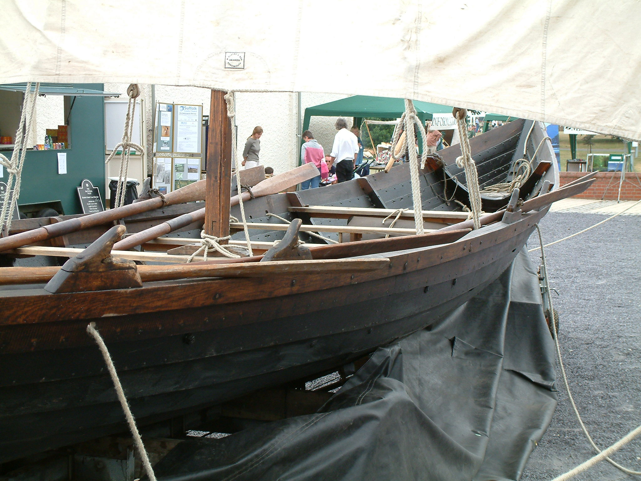 Replica of the ship from the Sutton Hoo ship-burial 1, England.